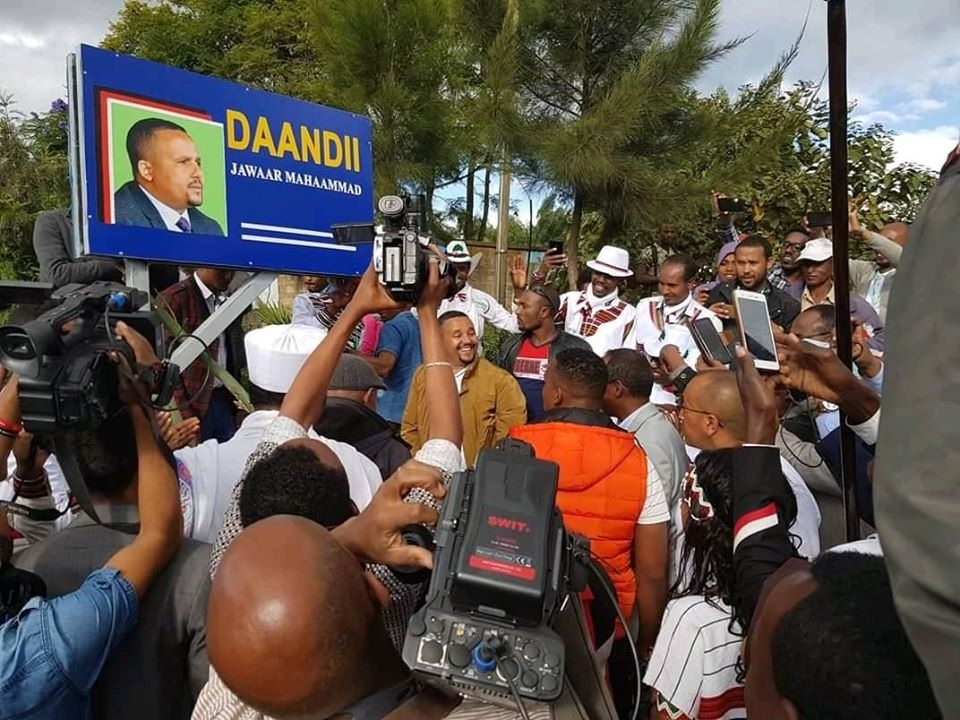 In honour of Jawar struggle Asella council agreed to name the street during Celebrating Irraecha.